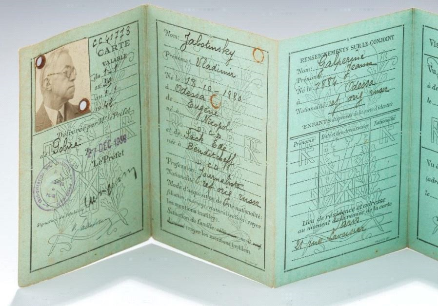 Jabotinsky’s French identification card - "Carte d'identite d'etranger"